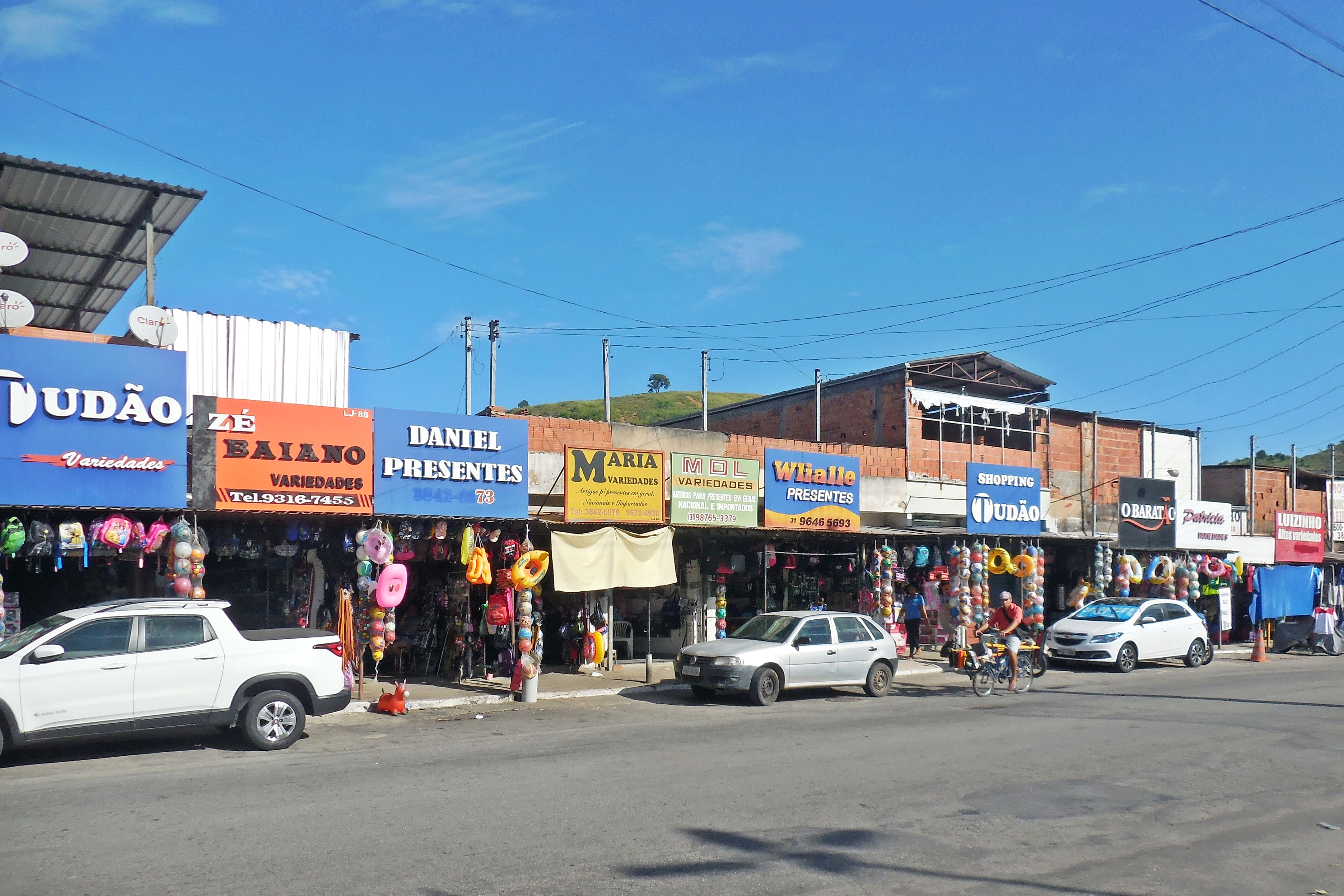 Small vendors in the downtown of Coronel Fabriciano, Minas Gerais, Brazil.